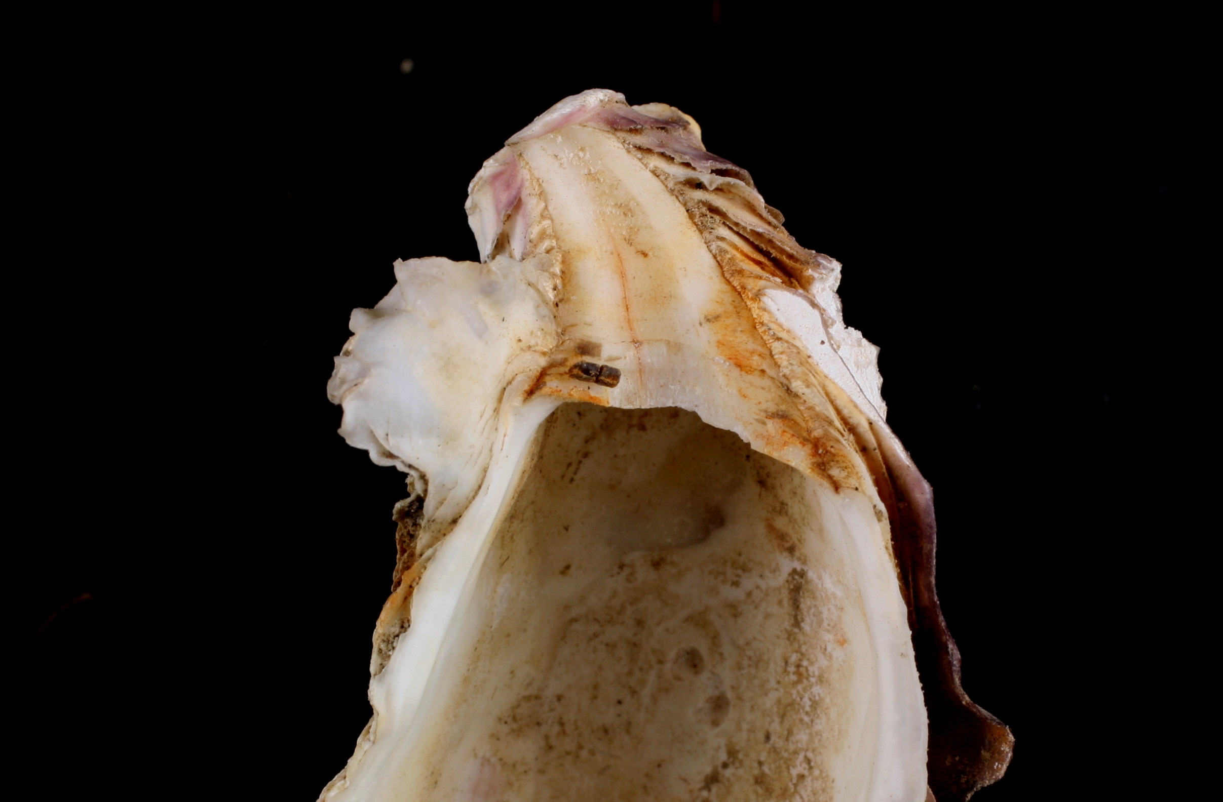 Ostreidae close up isodont hinge